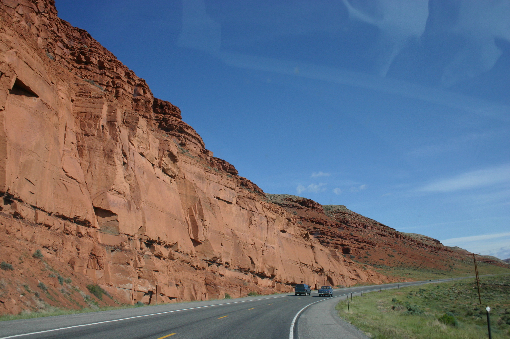 Red Cliff